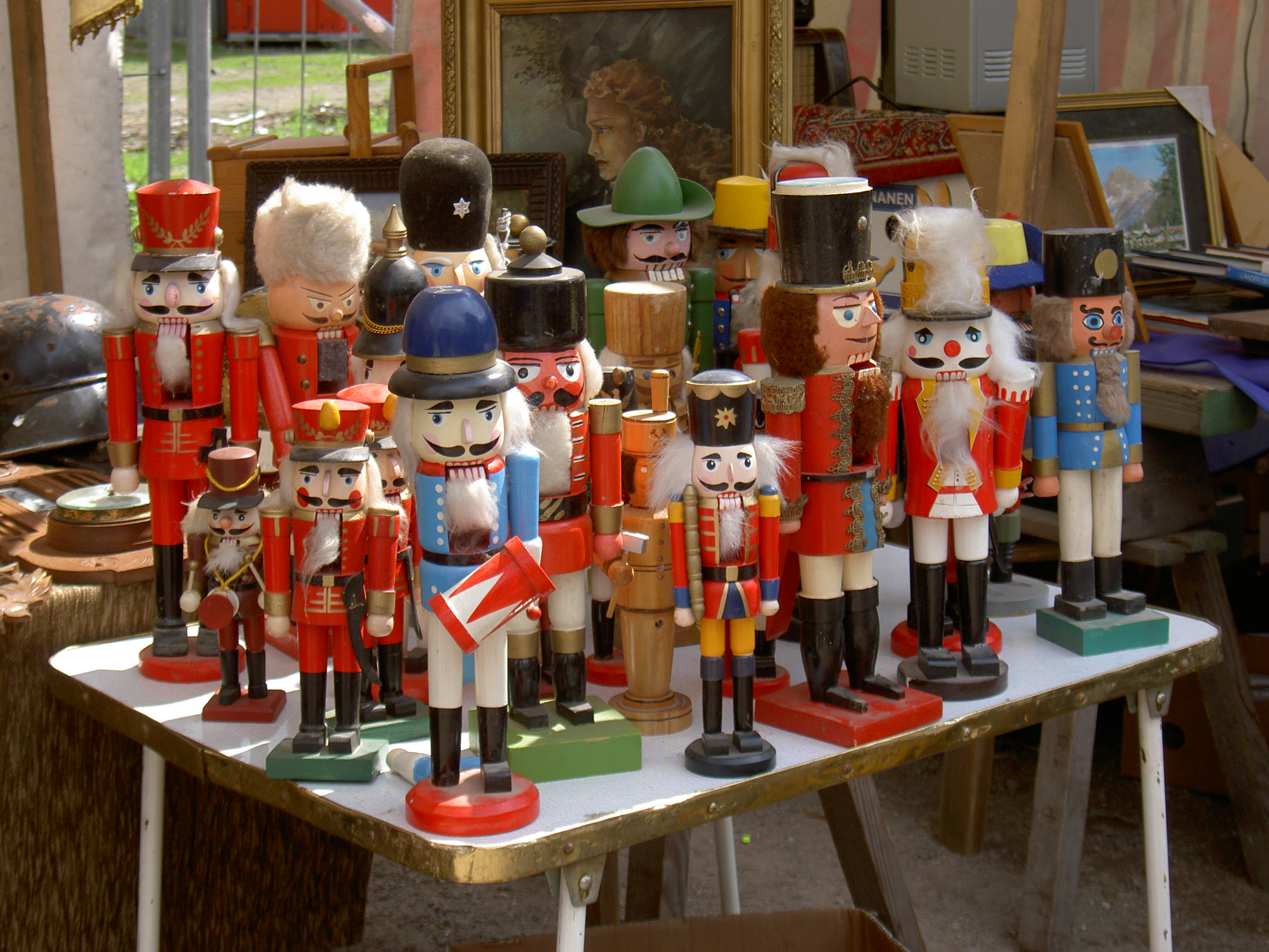 A group of older wooden nutcrackers, in the shape of soldiers. Photographed at a flea market in Berlin, Germany, 2006.